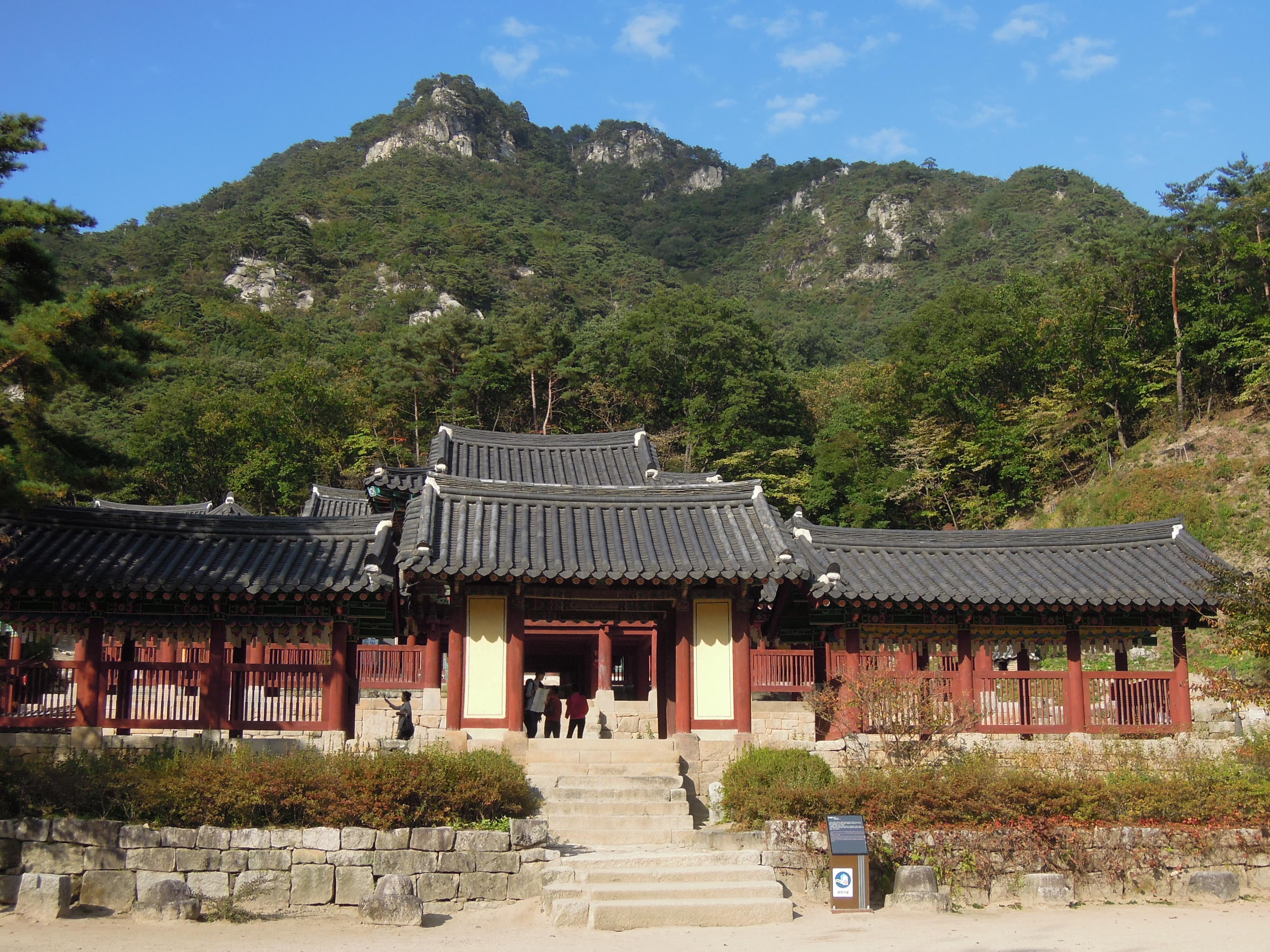 Famous Cheongpyeong Temple close to Chuncheon